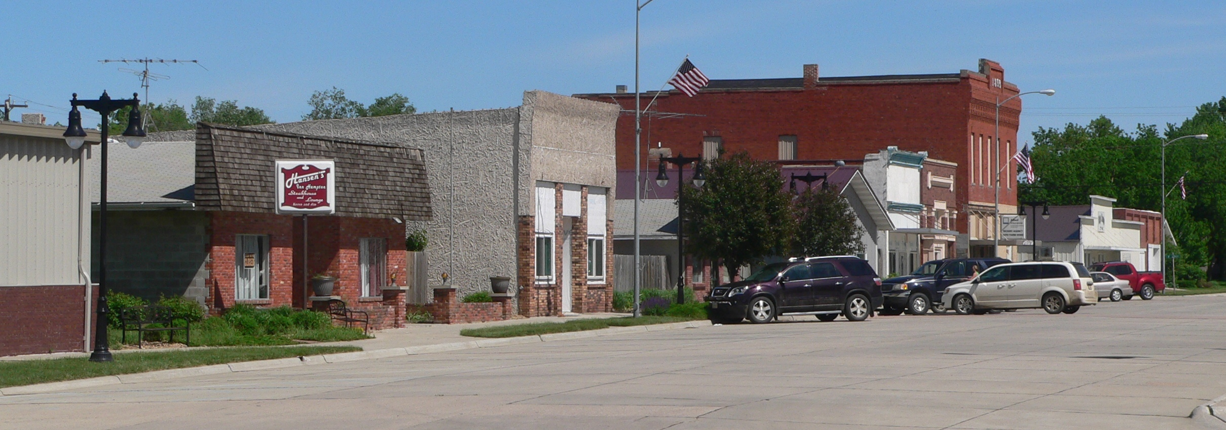 Downtown Hampton, Nebraska: west side of 3rd Street, looking northeast from about A Street.